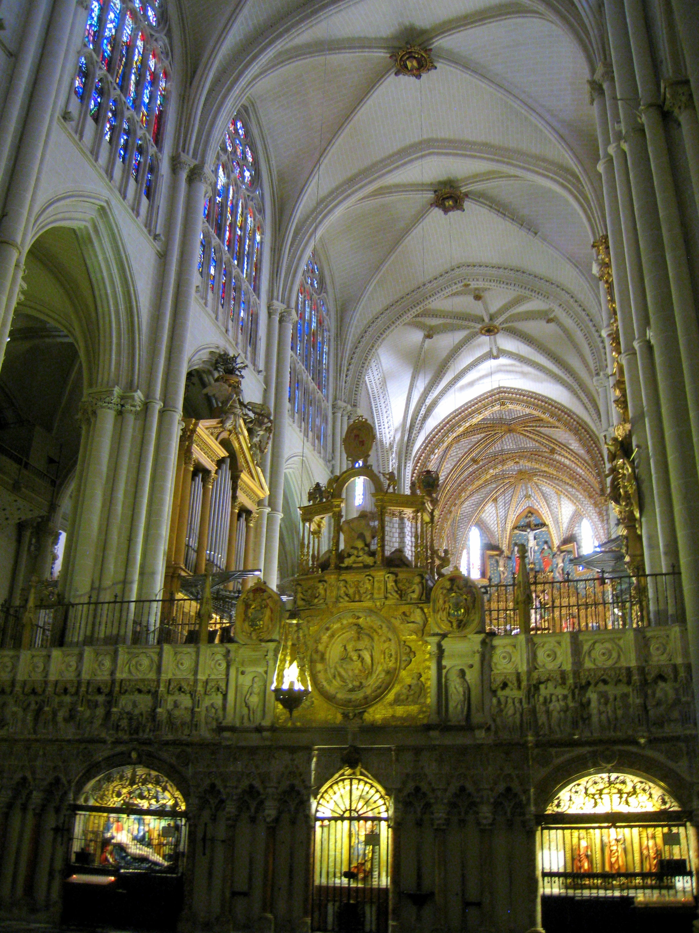 Cathedral of Toledo, Spain.